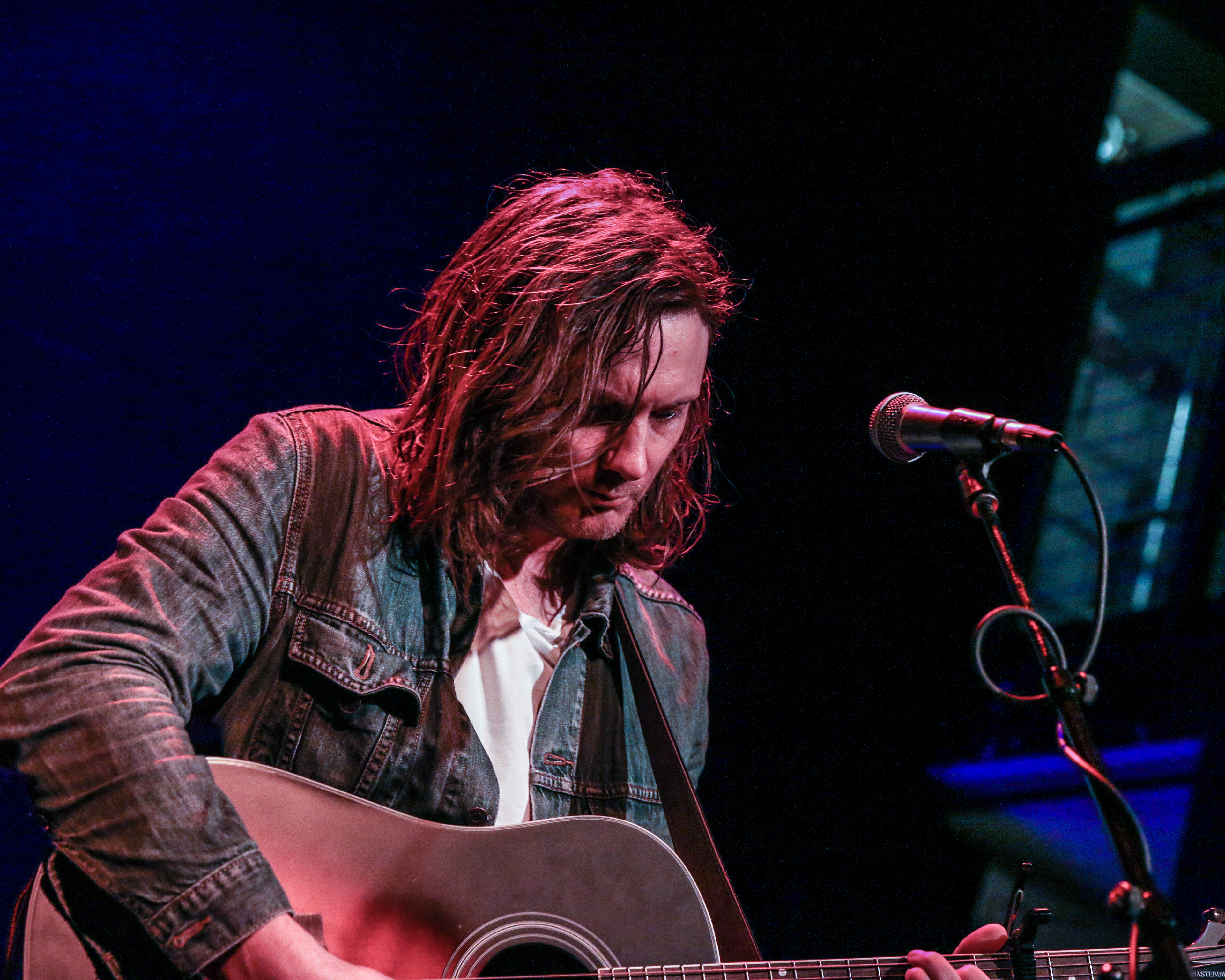 Ryan Culwell at Rough Trade in Brooklyn, NY on 4/24/18